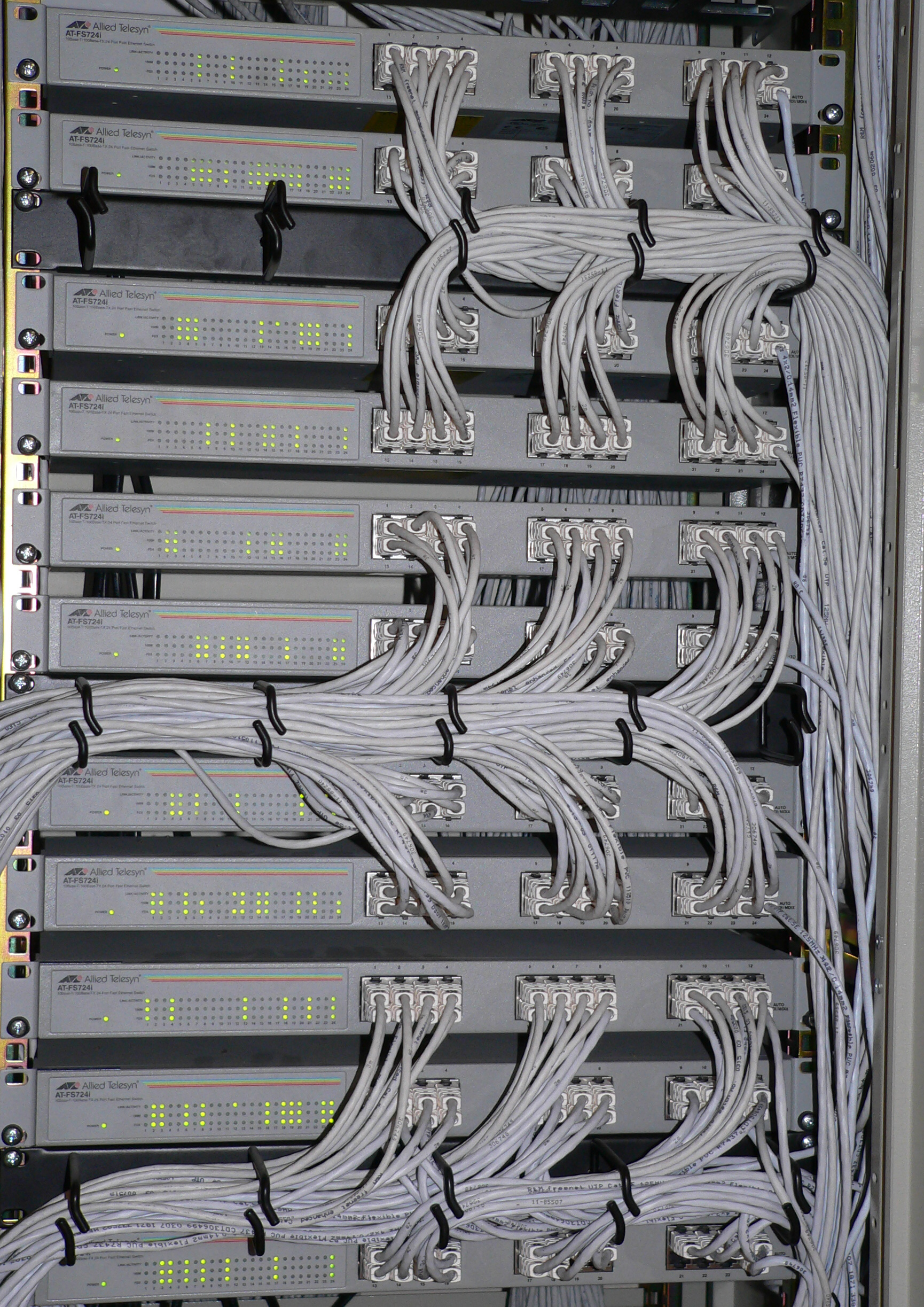 Allied Telesyn switches in rack